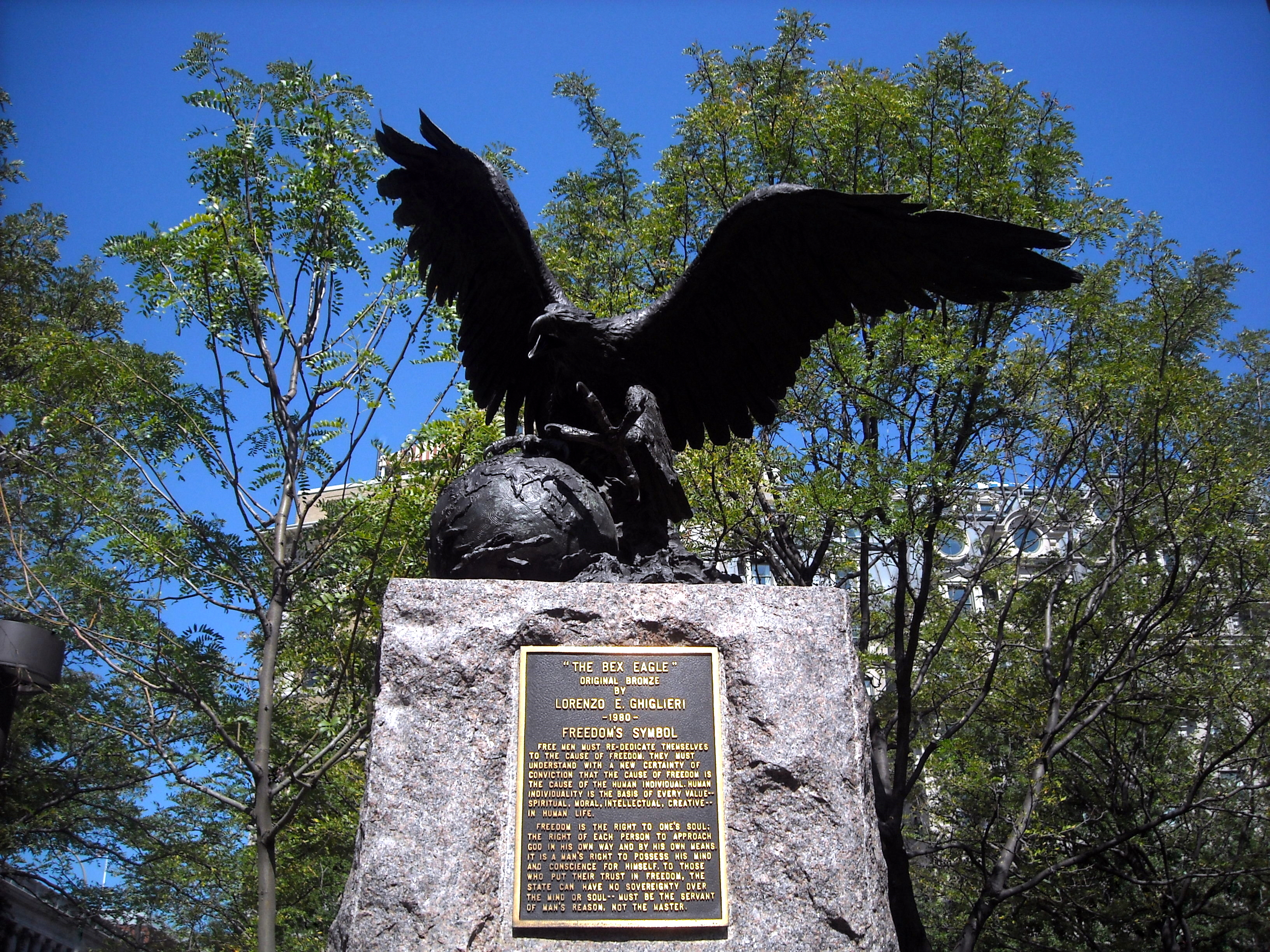 The Bex Eagle, a 1980 bronze statue by Lorenzo Ghiglieri, located in Pershing Park in Washington, D.C.